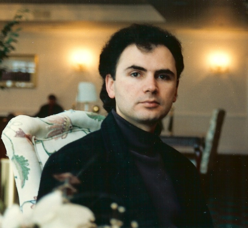 Photograph of Dejan Stojanović taken in the loby of a hotel near Chicago.